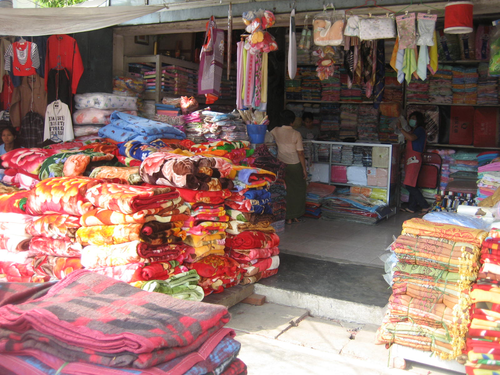 Chinese blankets for the Mandalay winter